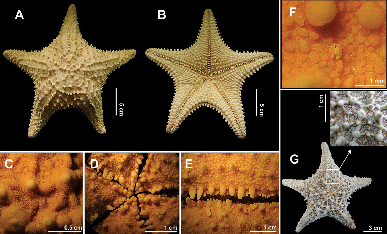 Oreaster reticulatus A Abactinal view B Actinal view C Detail view da abactinal surface D Detail of the mouth E Actinal view of the arm F Detail of the bivalve pedicellariae, and G Skeleton, in detail its arrangement into a reticulum.